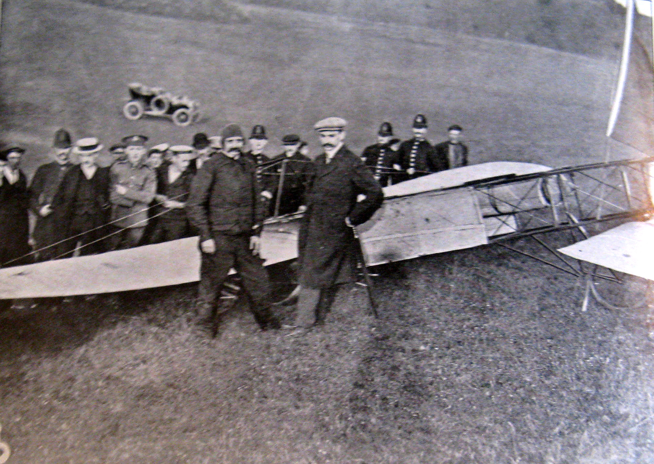 Louis Blériot (1872-1936) and his airplane Blériot XI after the first Channel crossing by airplane on July 25, 1909 at the landing field in Dover, England. (See also: Bleriot memorial, Dover)